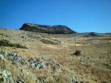 Karstic landscape, a stone field (karren) (Lapiaz de los Lanchares), in the Subbeticas geopark, Cordoba, Spain. At the background, the mountain is Picacho de la Sierra de Cabra